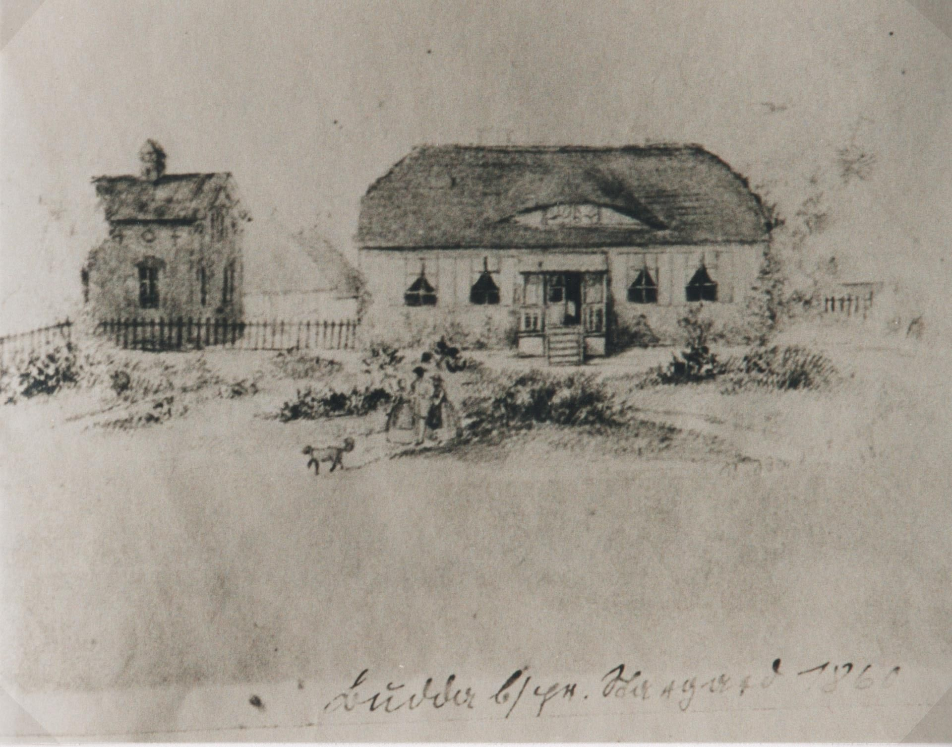 Manor Budda 1882, West Prussia. Today: Budy in the polish municipality Lubichowo, Starogard County, Pomeranian Voivodeship.